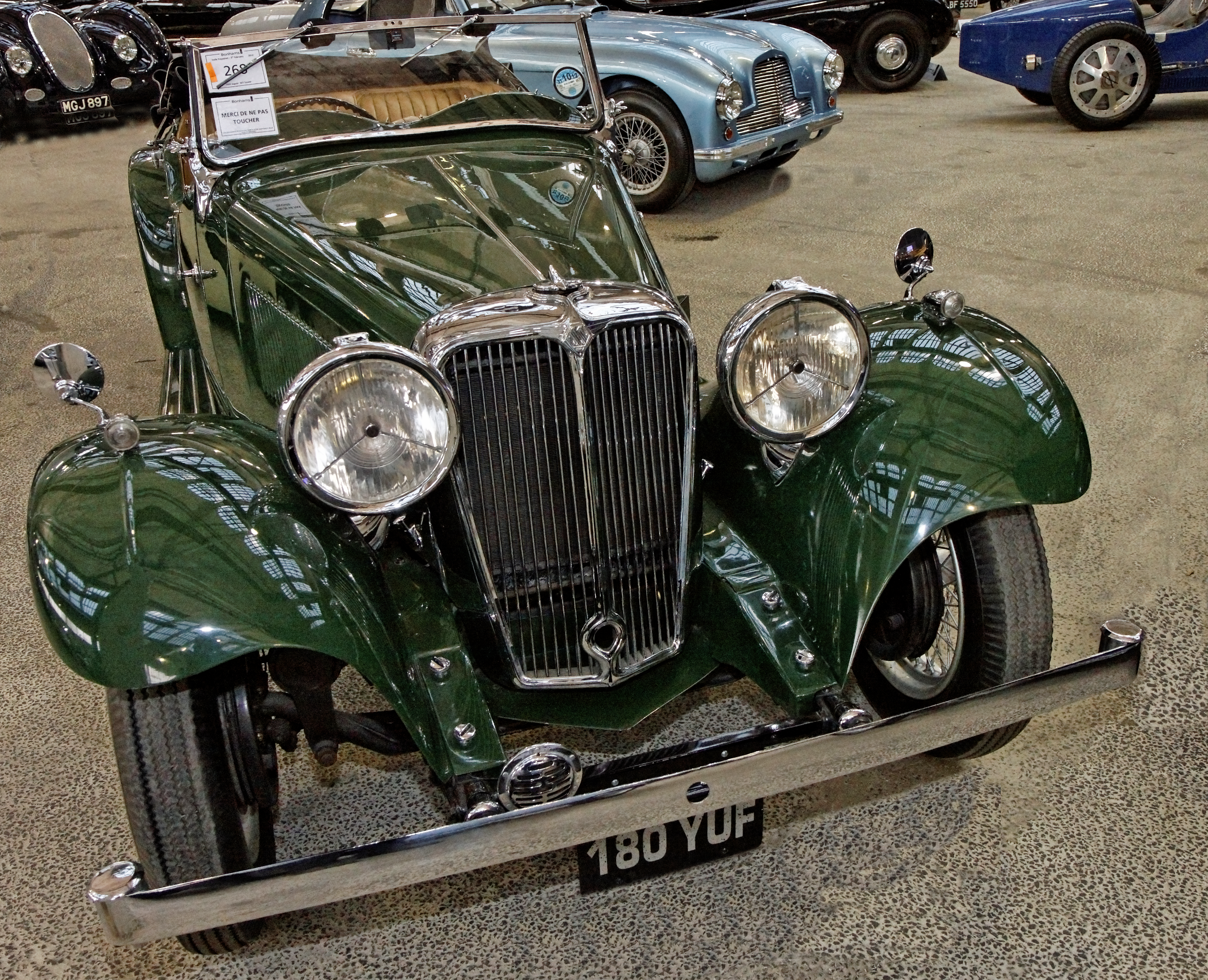 SS One tourer (DVLA) first registered 14 November 2011, year of manufacture 1935, 3000cc Bonhams Paris Sale 2012